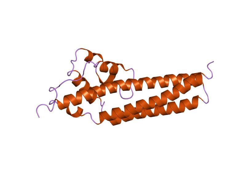 Cartoon representation of the molecular structure of protein registered with 1r8i code.